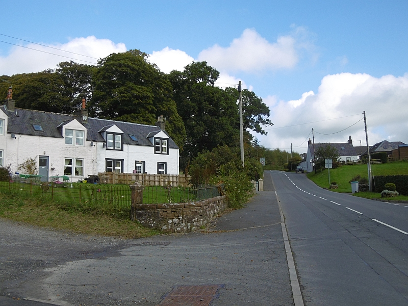 Boreland